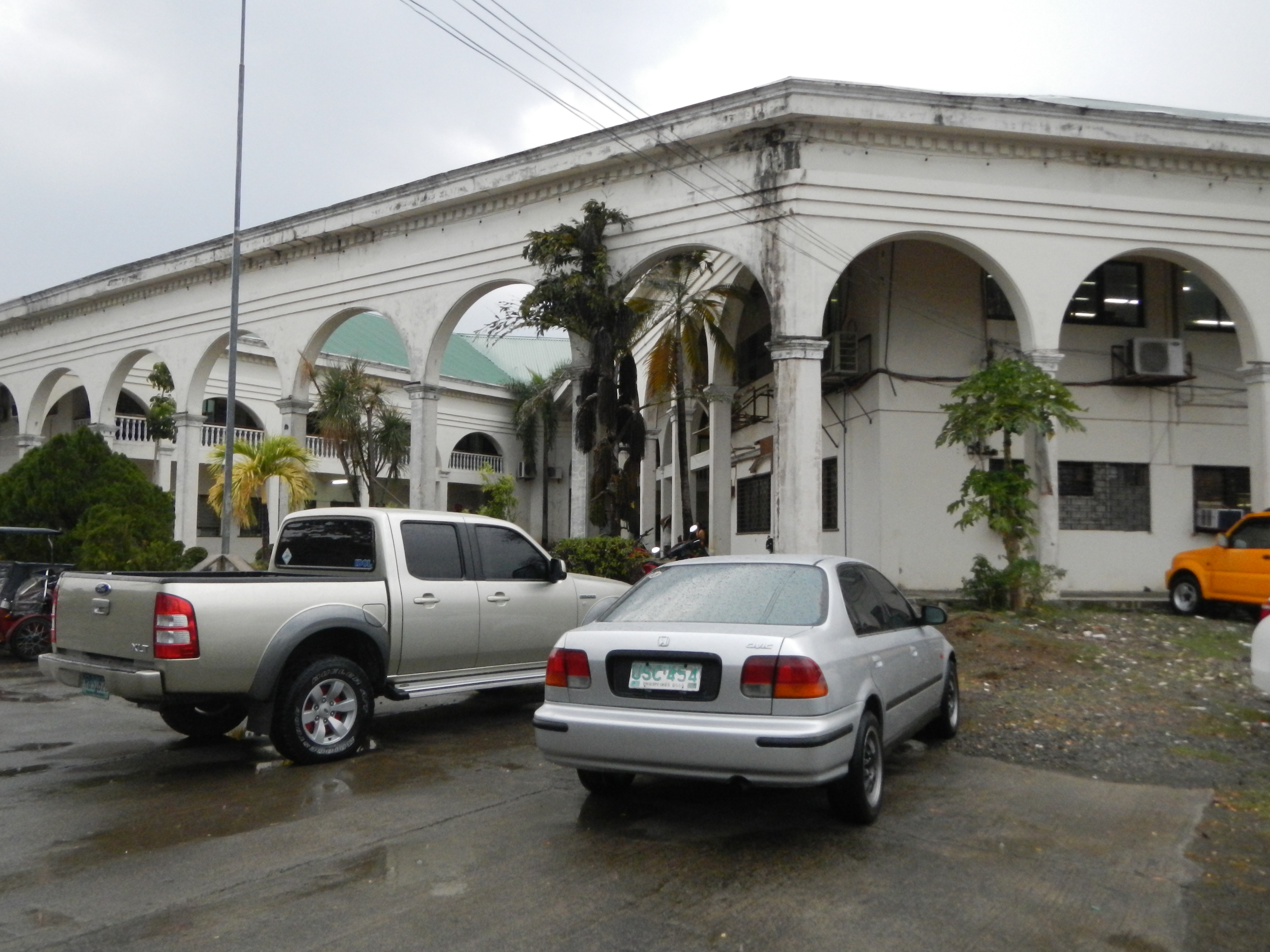 Cabanatuan City Hall Complex, Barangay Kapitan Pepe, Cabanatuan City, Nueva Ecija.